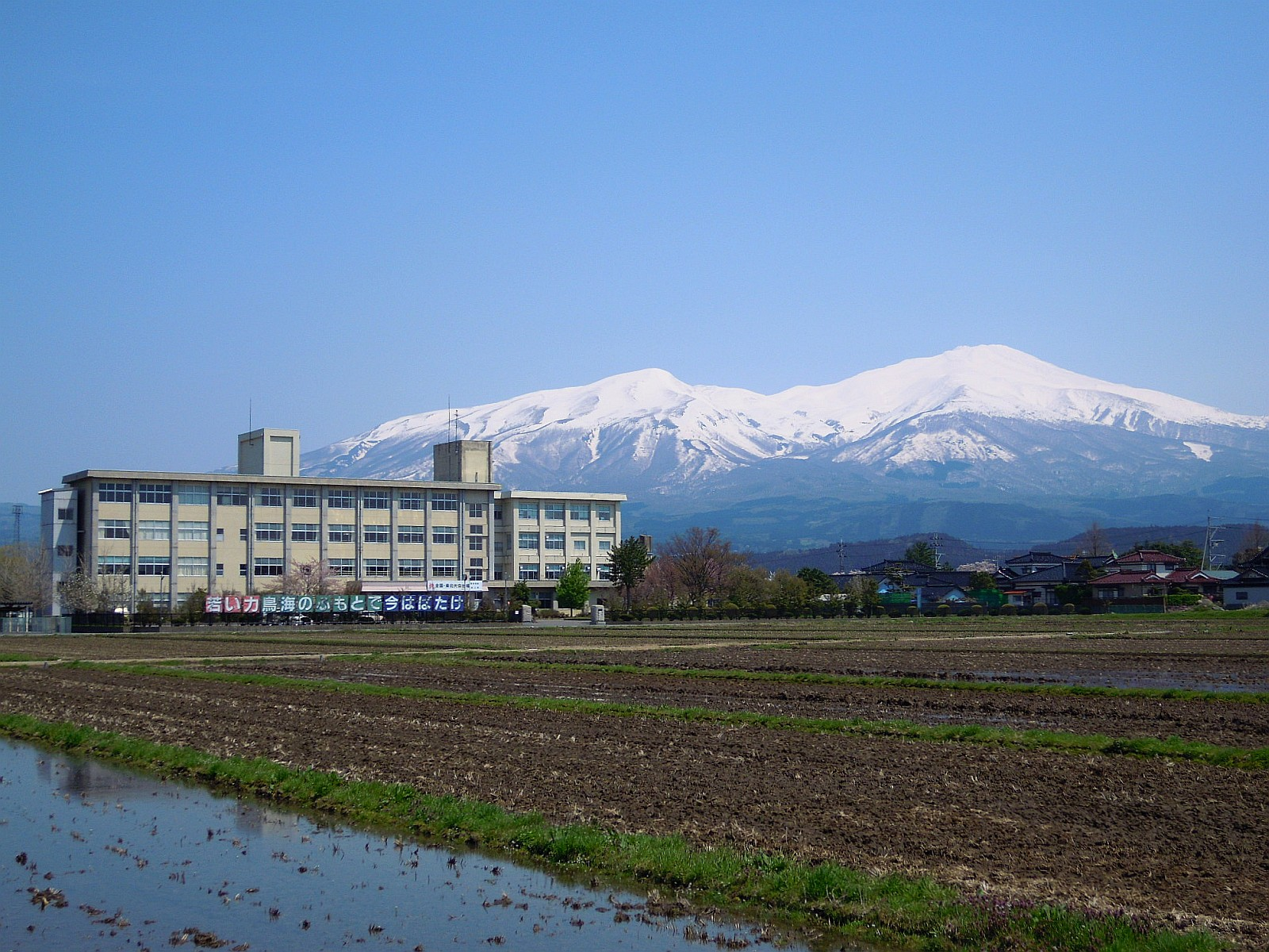 This is the Yuza High School, in Yuza town, Yamagata Prefecture, Japan